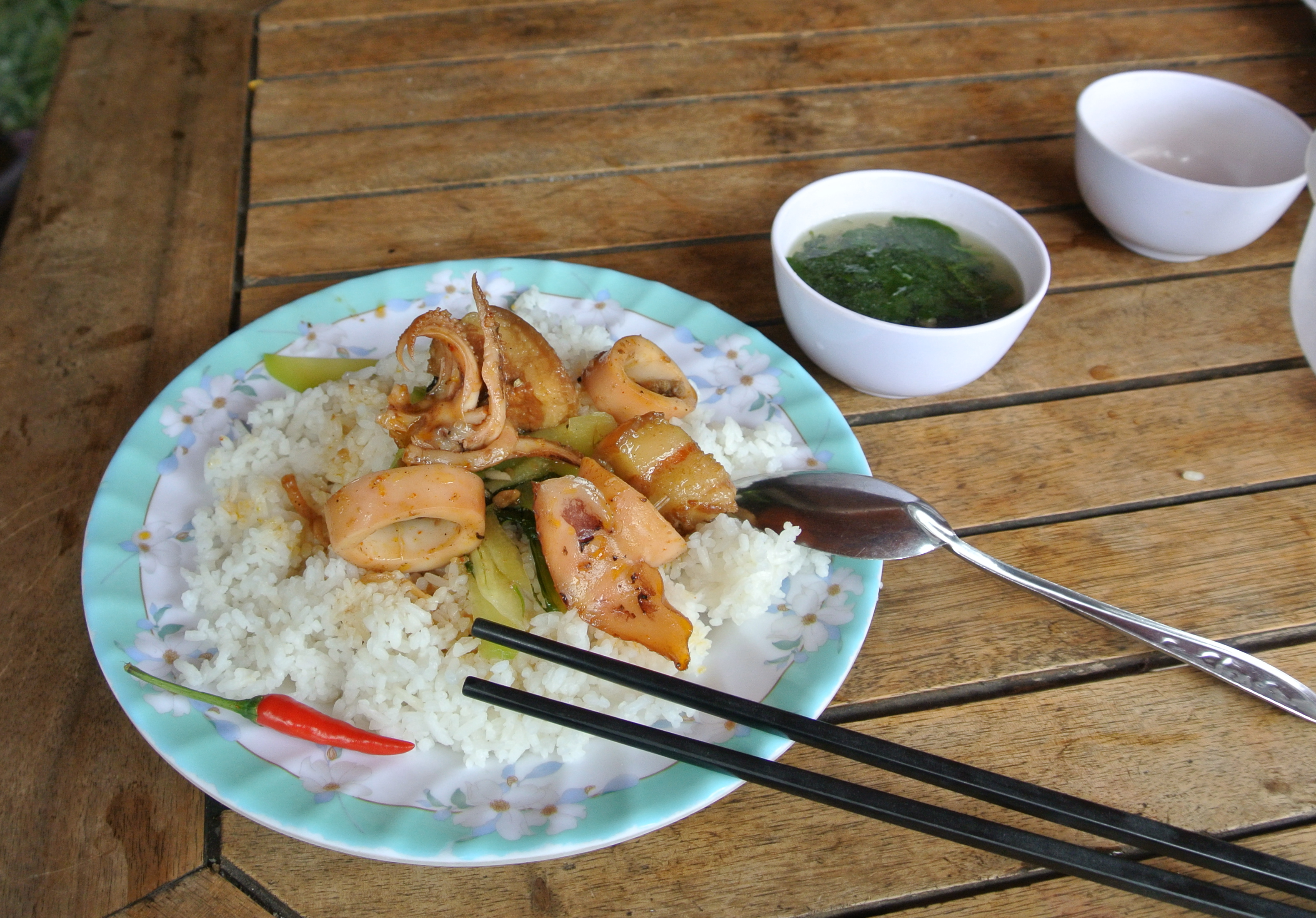 sample of one plate menu at Vietnam